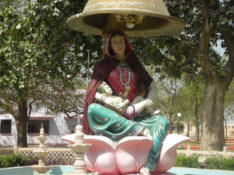 Saadu Maata Gurjari was mother of lord DEvnarayan and wife of Shri Sawai Bhoj, one of the 24 Gurjar brothers named as Bagaravats.She was Khatana by Gotra and daughter of Shri Daudha Ji Khatana from Devas.In this picture she is with her son Shri Devnarayan Bhagwan when he got incarnated in lotus leaf at Maalasheri.The picture is taken from Dev Dham Jodhpuriya.